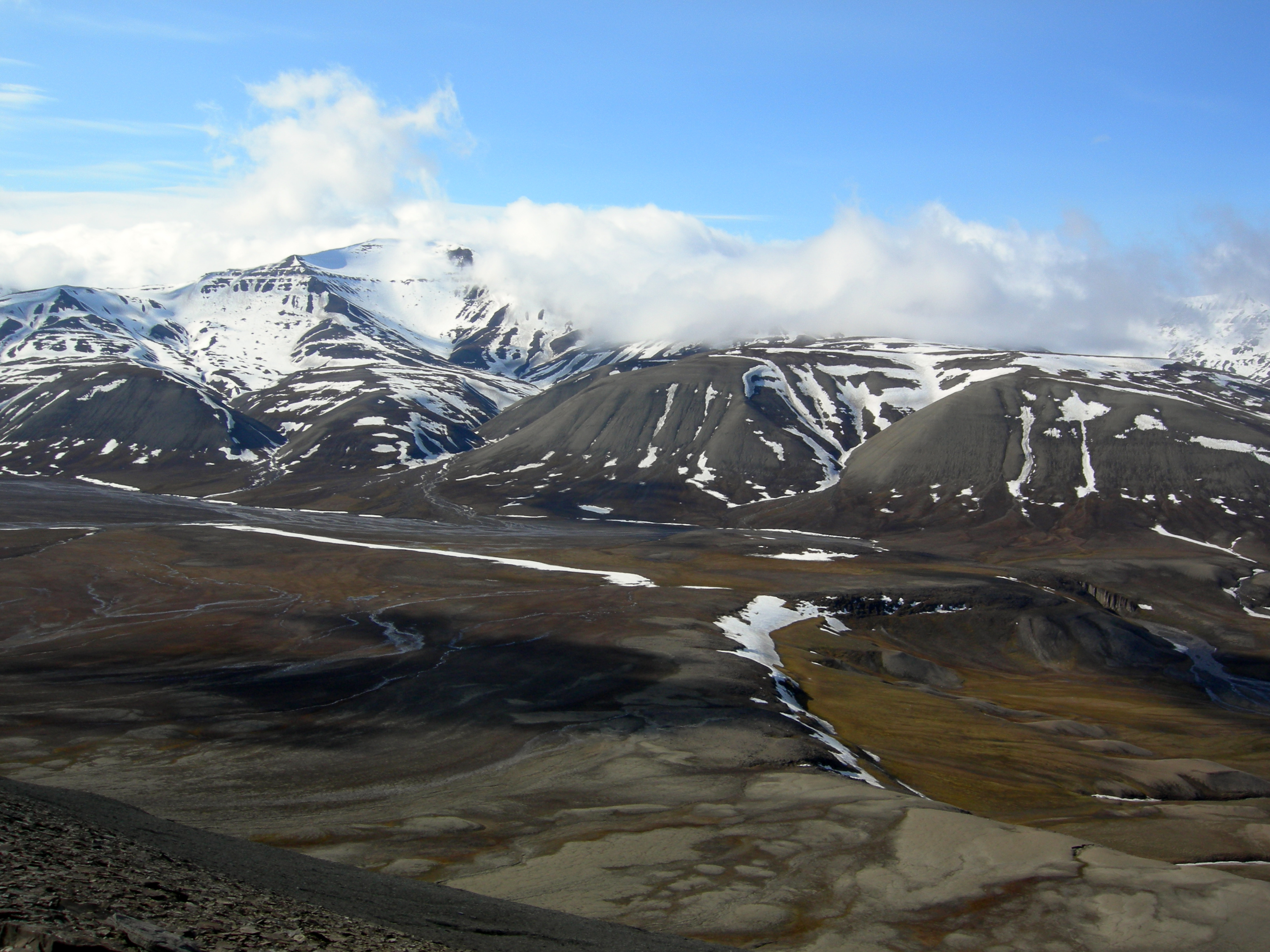 DeGeerdalen just south of Isfjorden shoreline, Svalbard, Norway.